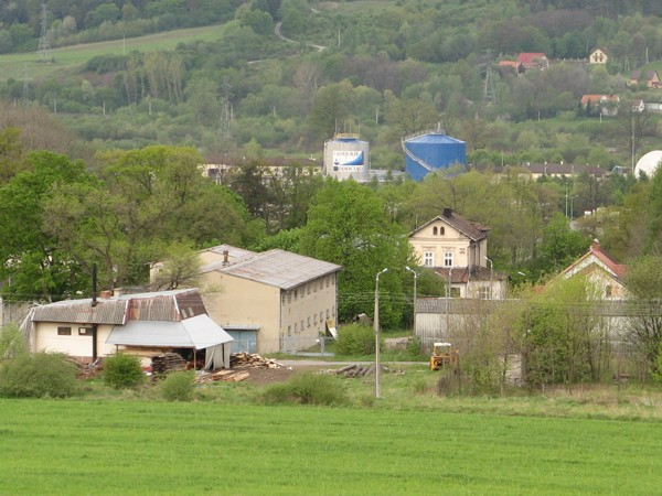 Buildings of the former State Agricultural Farm in the village Wielopole